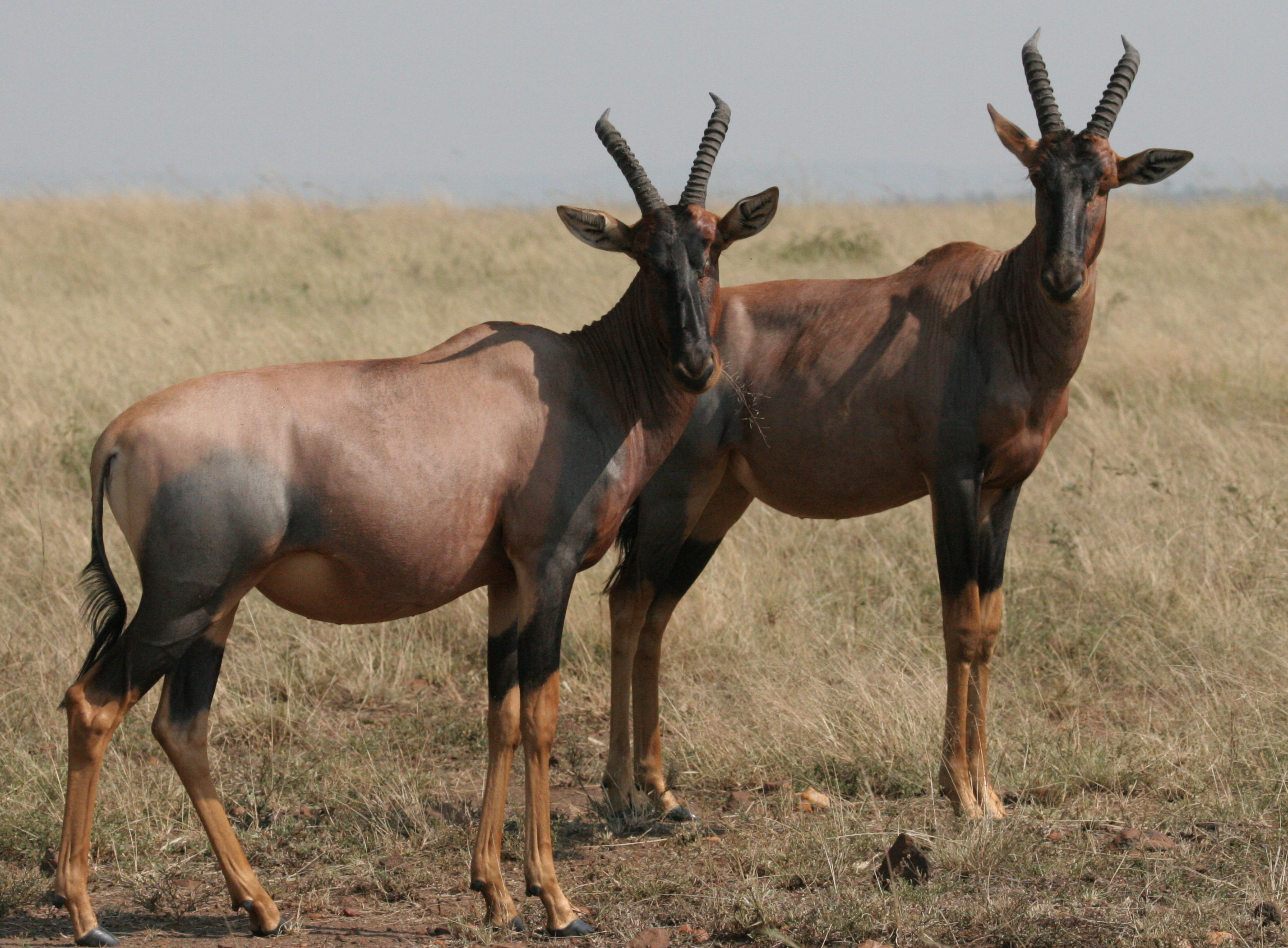 Topi (Damaliscus lunatus) in the Masai Mara National Reserve.